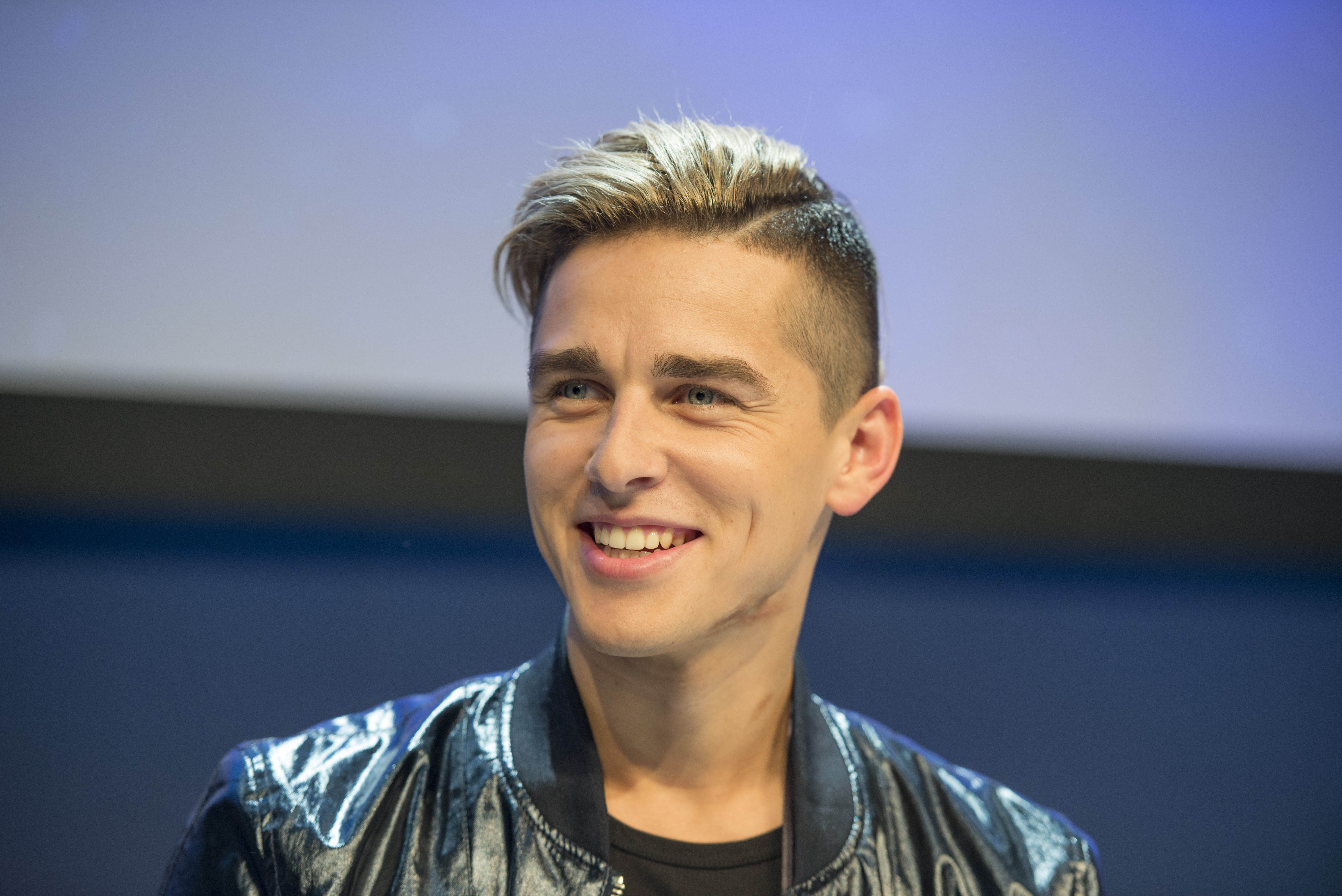 Donny Montell at a Meet & Greet during the Eurovision Song Contest 2016 in Stockholm. (Help translate this text)